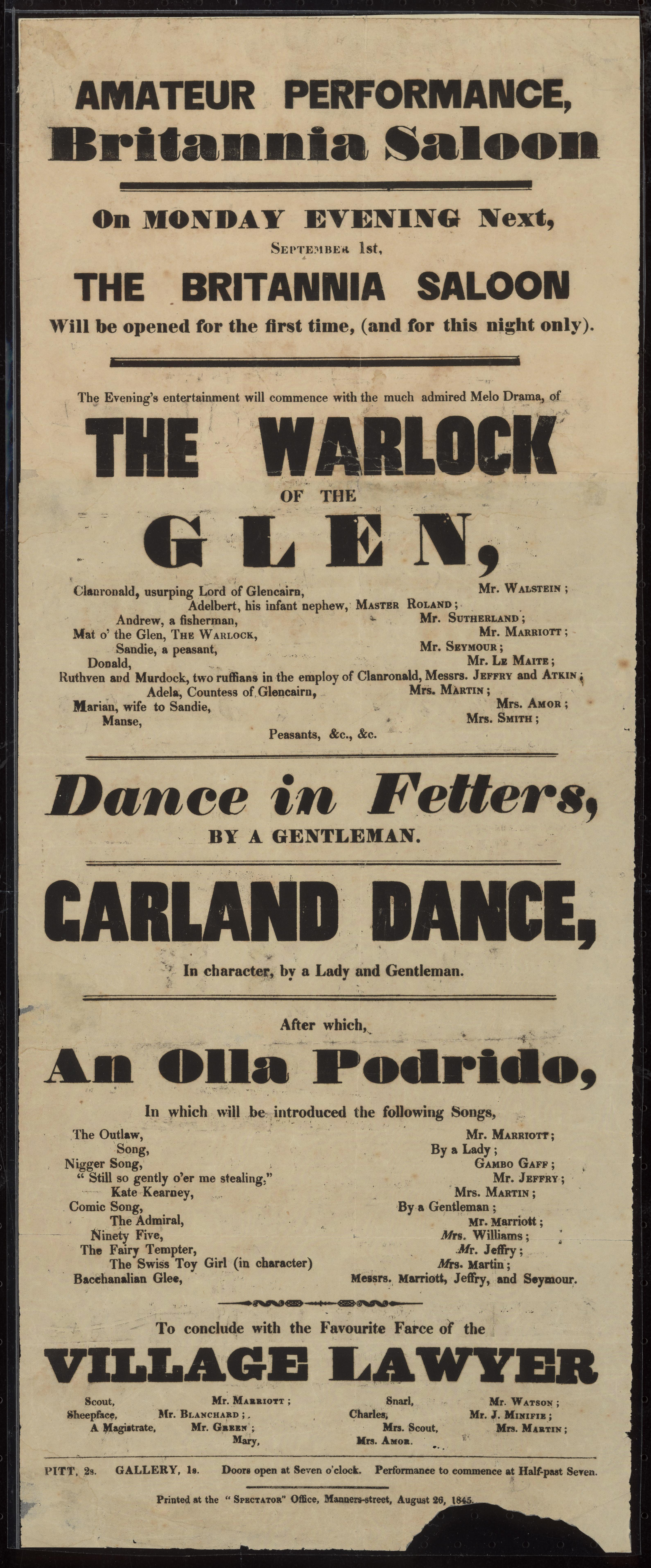 Arrangement of typographic elements, in the Victorian style. The performers include: Mr Walstein, Mr Sutherland, Mr Marriott, Mr Seymour, Mr Le Maite, Messrs Jeffry and Atkin, Mrs Smith, Gambo Gaff, Mrs Martin, Mr Blanchard, Mr Green, Mr Watson, Mr J Minifie, Mrs Amor, Mrs Scout. Quantity: 1 b&w art print(s). Physical Description: Letterpress, 635 x 252 mm. New Zealand Gazette and Wellington Spectator (Newspaper). Britannia Saloon :Amateur performance Britannia Saloon, on Monday evening next, September 1st. The Britannia Saloon will be opened for the first time (and for this night only). The evening's entertainment will commence with ... "The warlock of the glen" ... "Dance in fetters" by a gentleman; "Garland dance" in character ... after which "An Olla Podrido" ... to conclude with ... "Village lawyer". Printed at the Spectator's Office, Manners-street, August 26, 1845.. Ref: Eph-D-VARIETY-1845-01. Alexander Turnbull Library, Wellington, New Zealand.